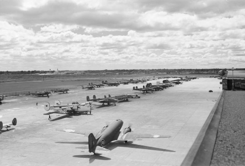 Royal Air Force Transport Command, 1943-1945. American-built aircraft lined up at Dorval, Montreal, Canada, awaiting delivery to the United Kingdom via the North Atlantic air route. During the war, Dorval airport became the major transit point in North America for flights to Europe and was the Headquarters of No. 45 (Atlantic Transport) Group RAF, (formerly the Atlantic Ferry Organisation).